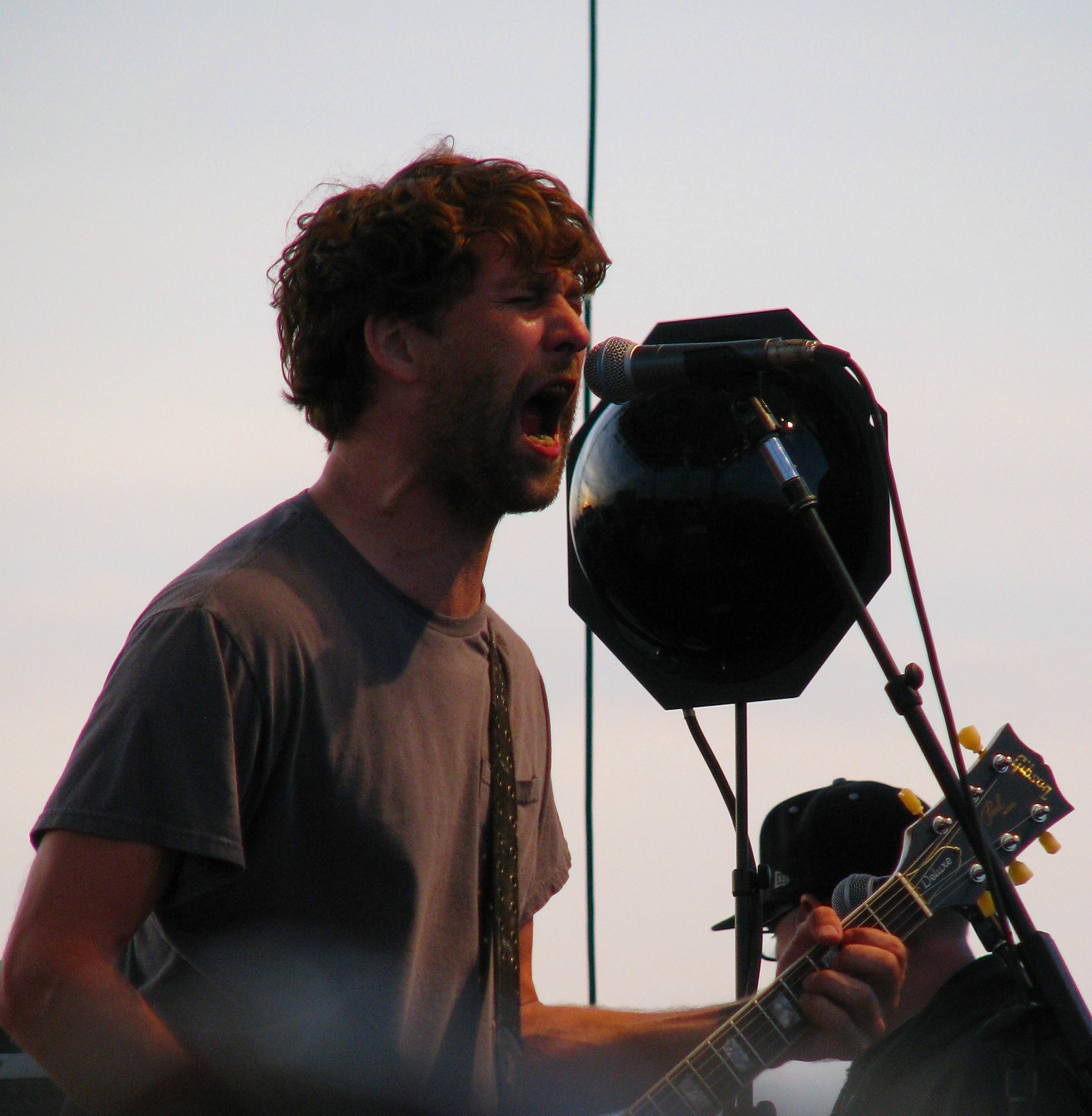 Hot Water Music on the Summer Stage at The Stone Pony on June 22, 2013. Photo by LHCollins